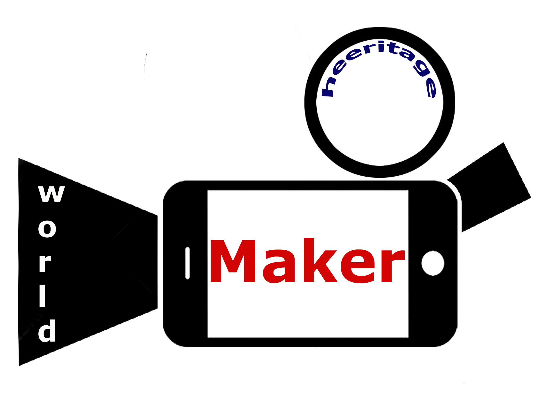 This is large size of my logo for World Heritage Maker